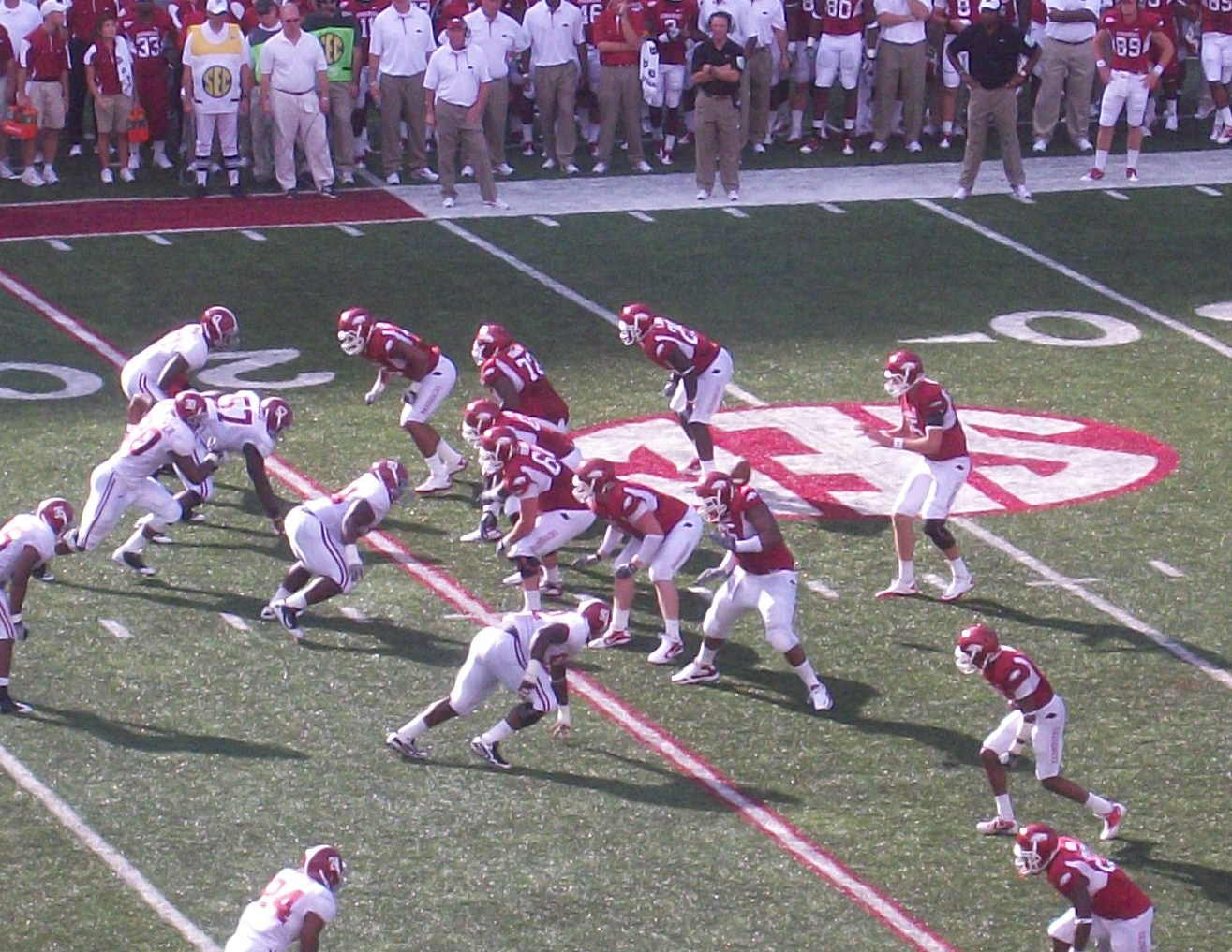 Ryan Mallett drops back to pass against Alabama in 2010.